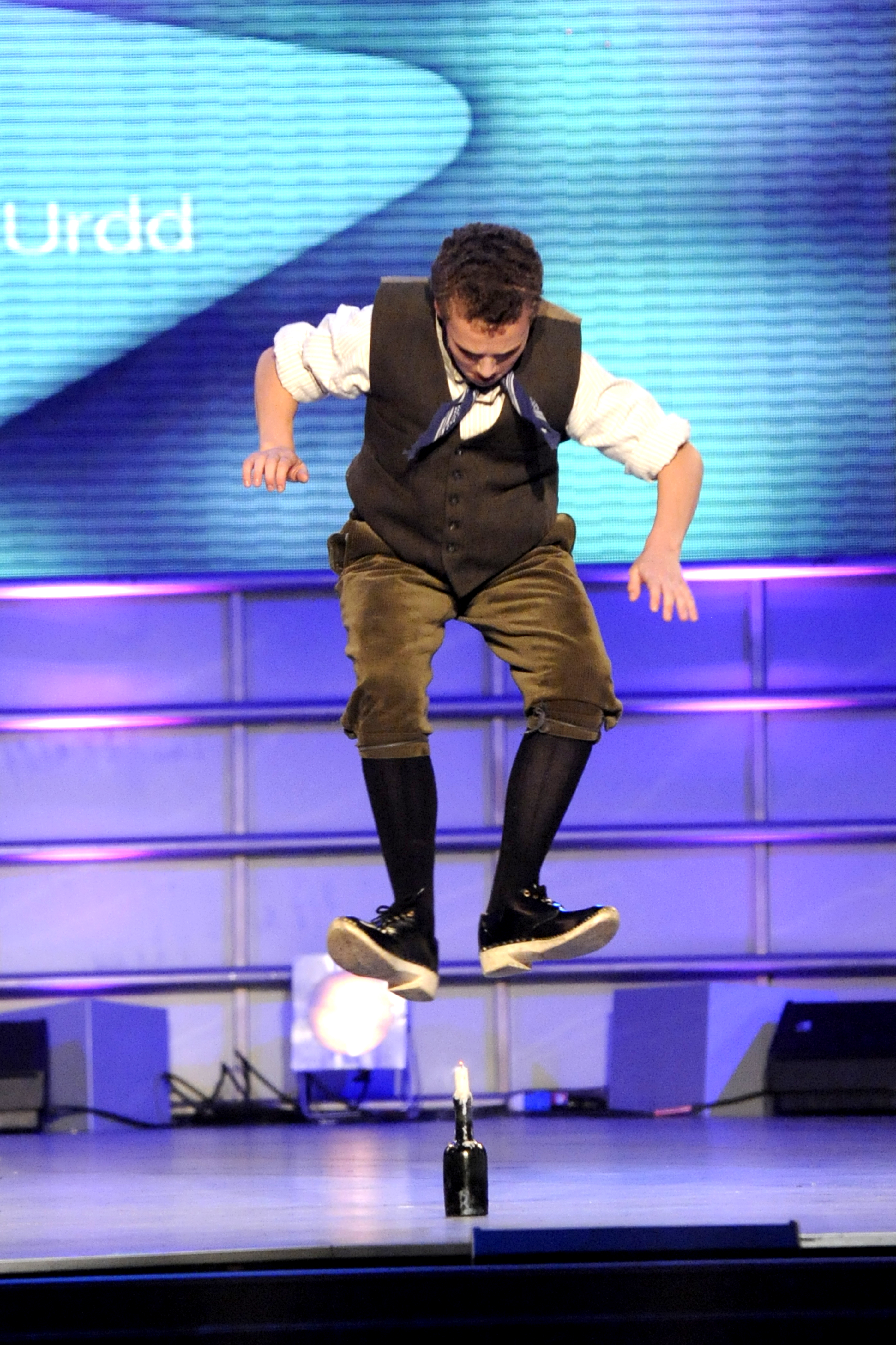 candle